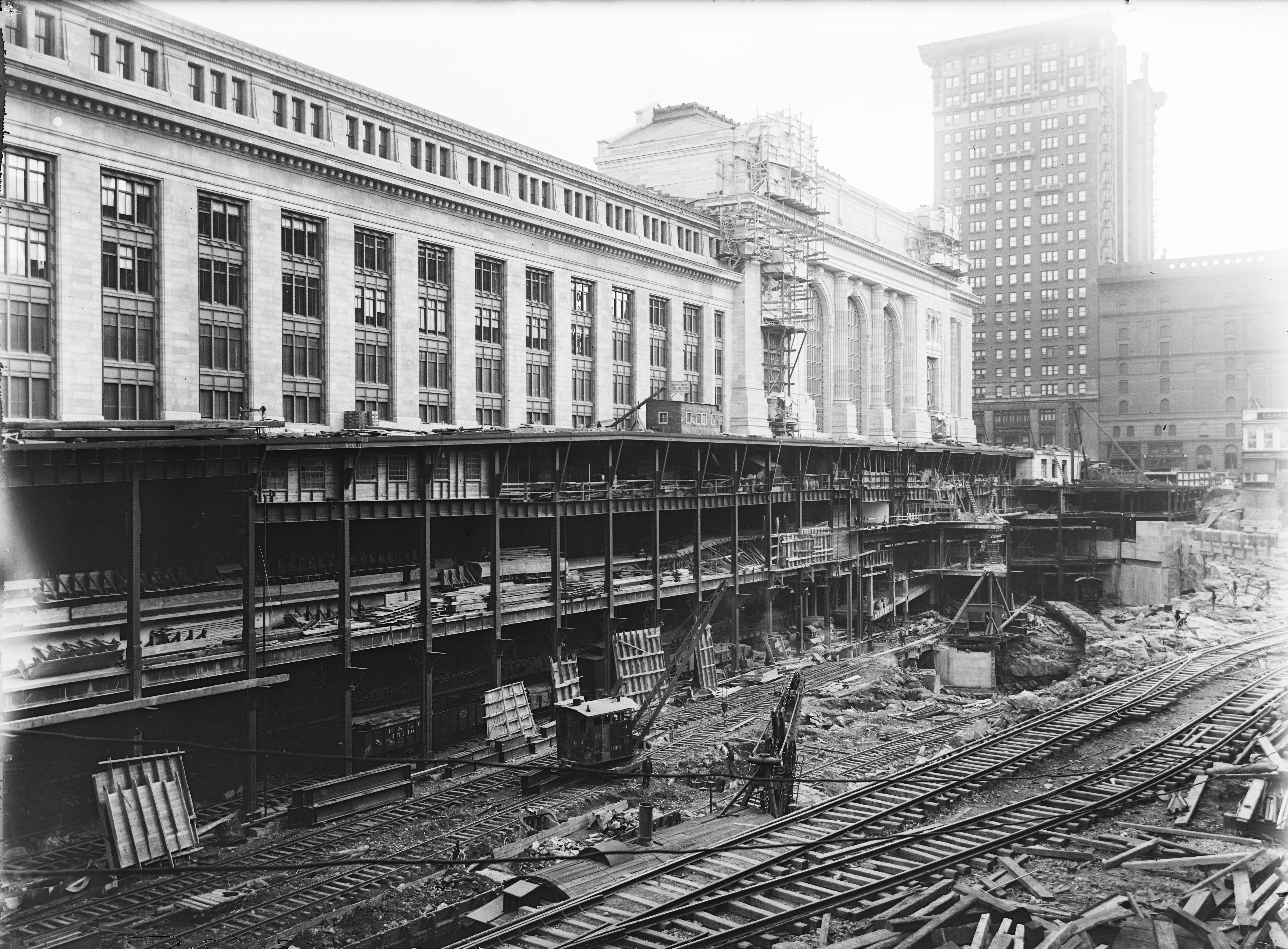 [Construction, Grand Central Terminal, New York, N.Y.]